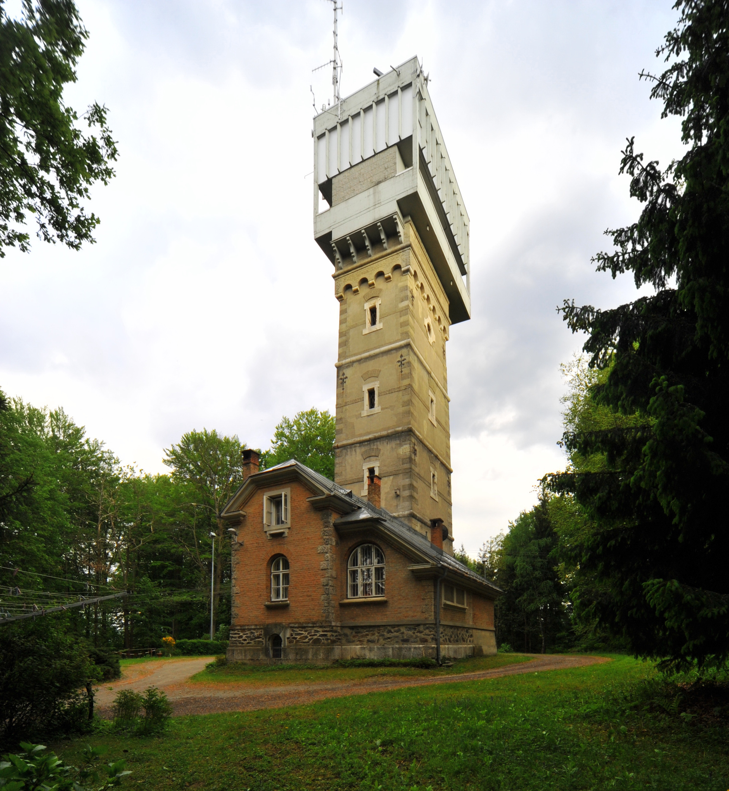 Look-out (erected in 1895) and observatory (constructed in 1965) on the Kreuzbergl, Giordano Bruno Weg #1, situated in the 8th district “Villacher Vorstadt” of the Carinthian capital Klagenfurt on the Lake Woerth, Carinthia, Austria